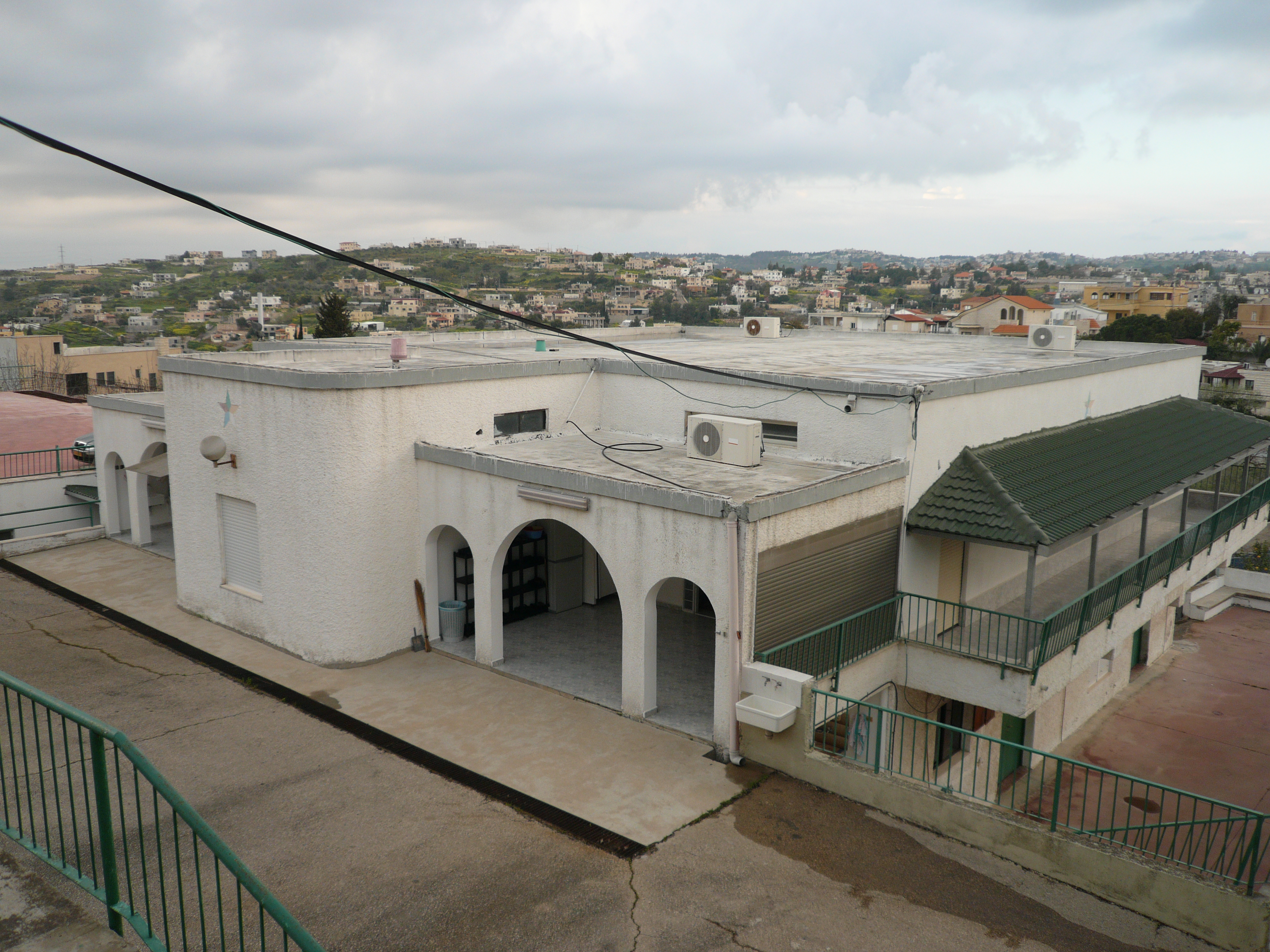 Drusic temple in Daliat al-Carmel, Israel